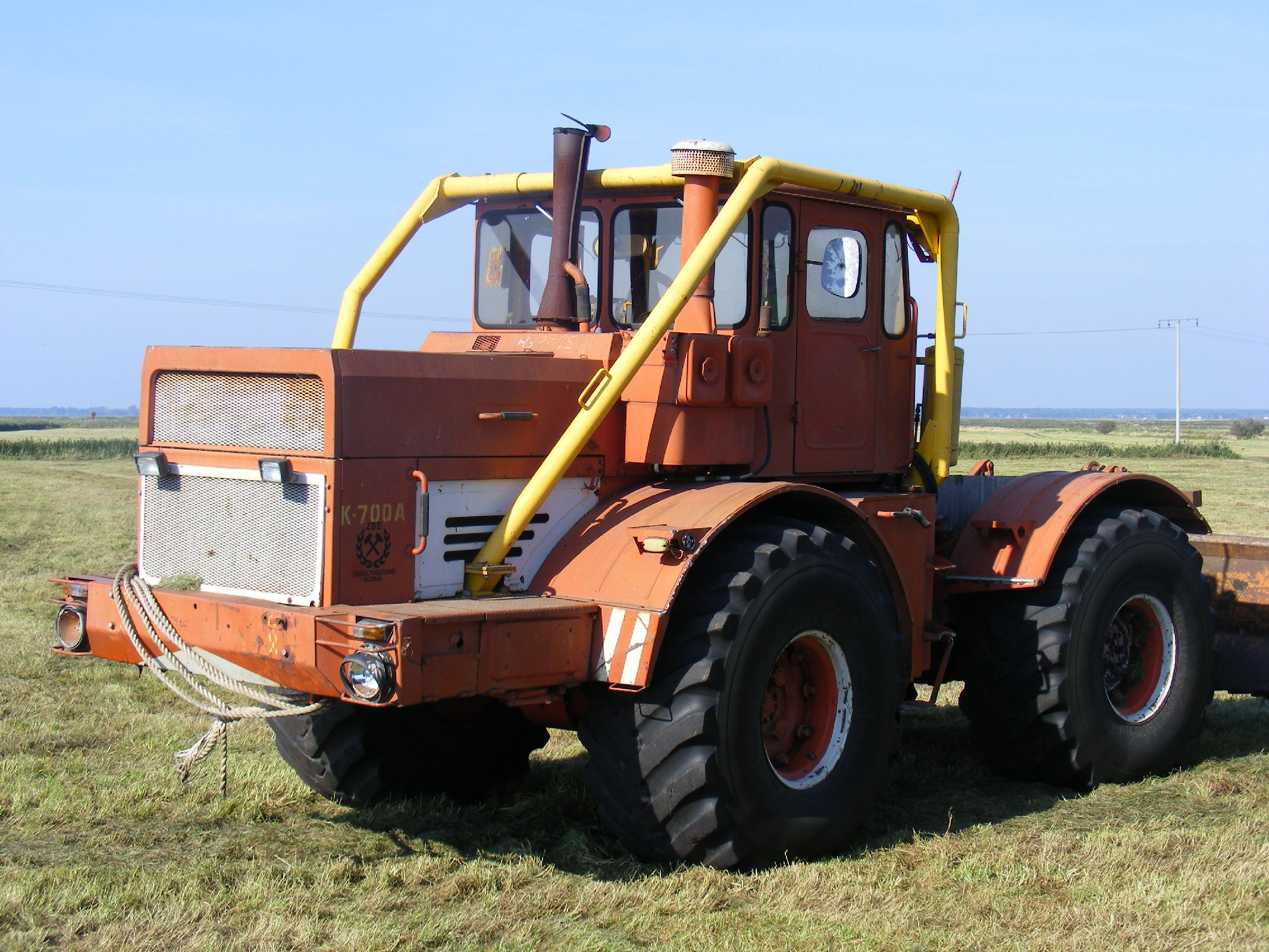 Bearing ZBE Rekultivierung Borna logo this is a fabulous USSR made Kirovetz K-700A tractor in Vorpommern, Germany; and still hard at work in the fields (ZBE = Zwischenbetriebliche Einrichtung – production network). Probably the tractor was formerly involved in re-greening of the former brown coal mining areas around Leipzig before transfer to the Baltic coast. The ZBE fleet of vehicles is noted here in this late 1970s account of transport in Borna. – The Kirow Tractor plant was set up by Lenin in 1924 in Leningrad, making Fordsons -Фордзон-Путиловец under licence. Known until 1934 as the Putilov Factory … The K700 was produced in 1962, and the firm still exists in St Petersburg, making the K744 from the ЗАО «Петербургский тракторный завод» or ZAO St Petersburg Tractor Plant. Website in russian here. – In the background the brackish inland sea, the Saaler Bodden separated from the Baltic by the Darss-Fischland peninsula.